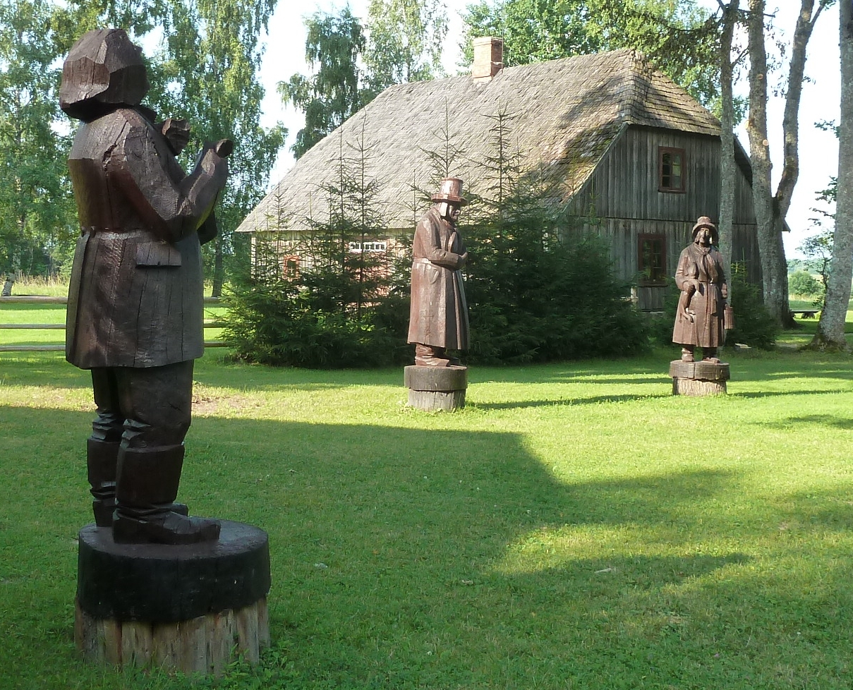 Three persons of the novel Mērnieku laiki appear at farm Kalna Kaibēni near Vecpiebalga: Prātnieks, Pāvuls and Ķencis.